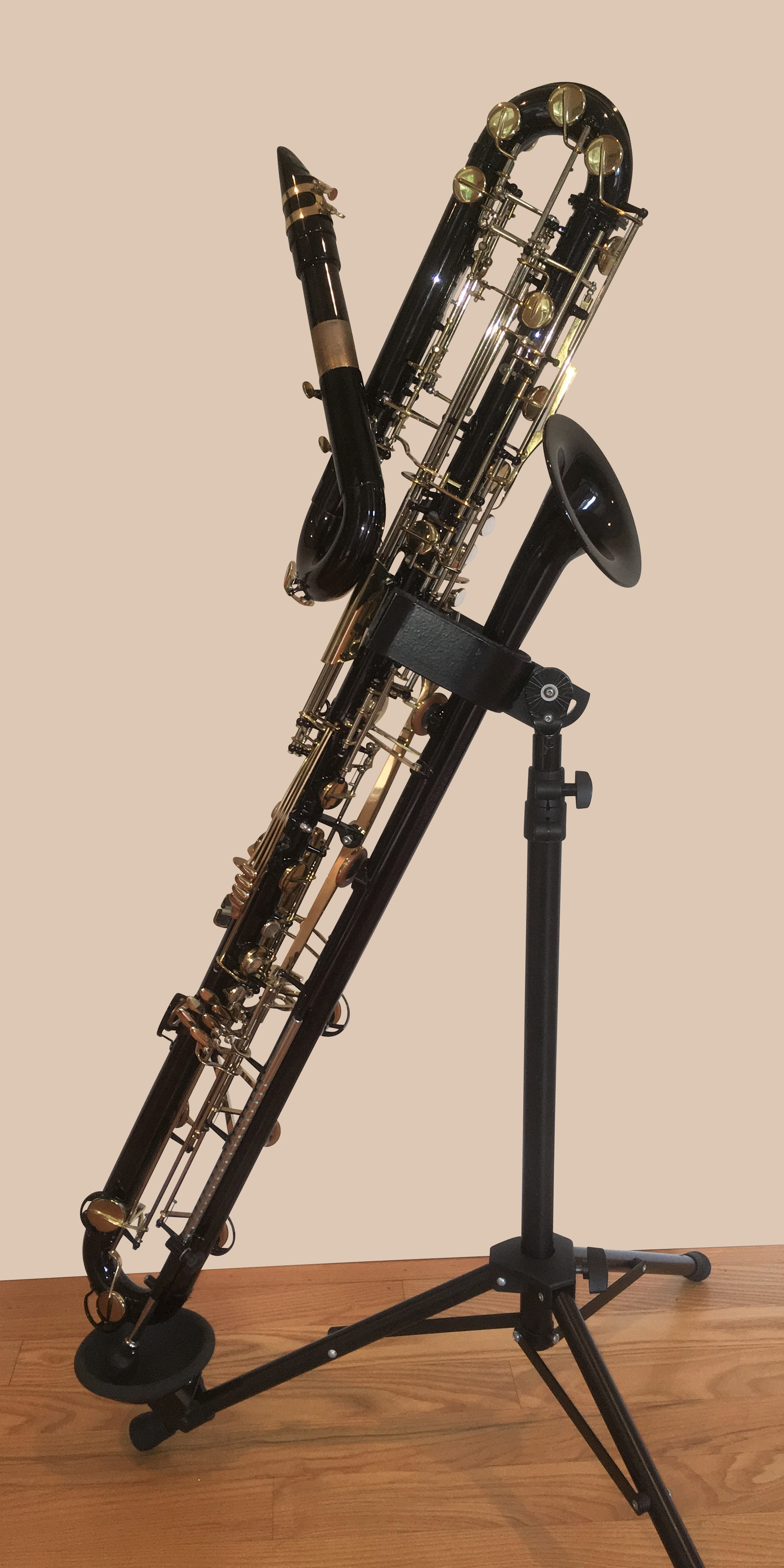 Benedikt Eppelsheim contrabass clarinet